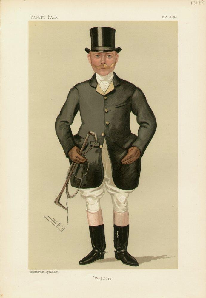 Statesmen No.503: Caricature of Mr WH Long MP. Caption reads: "Wiltshire"